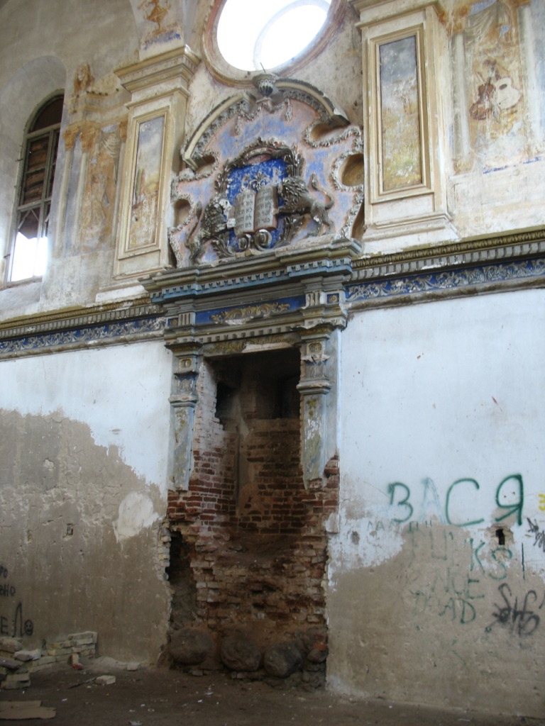 Synagogue (Slonim, Belarus)